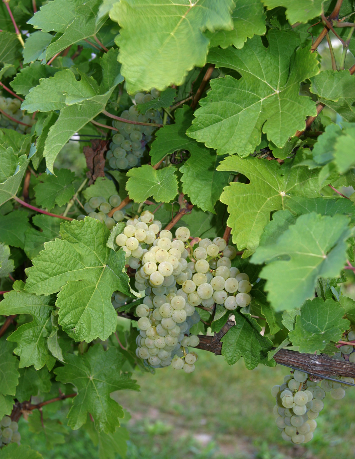 Leafs and grapes of the white grape variety Johanniter.